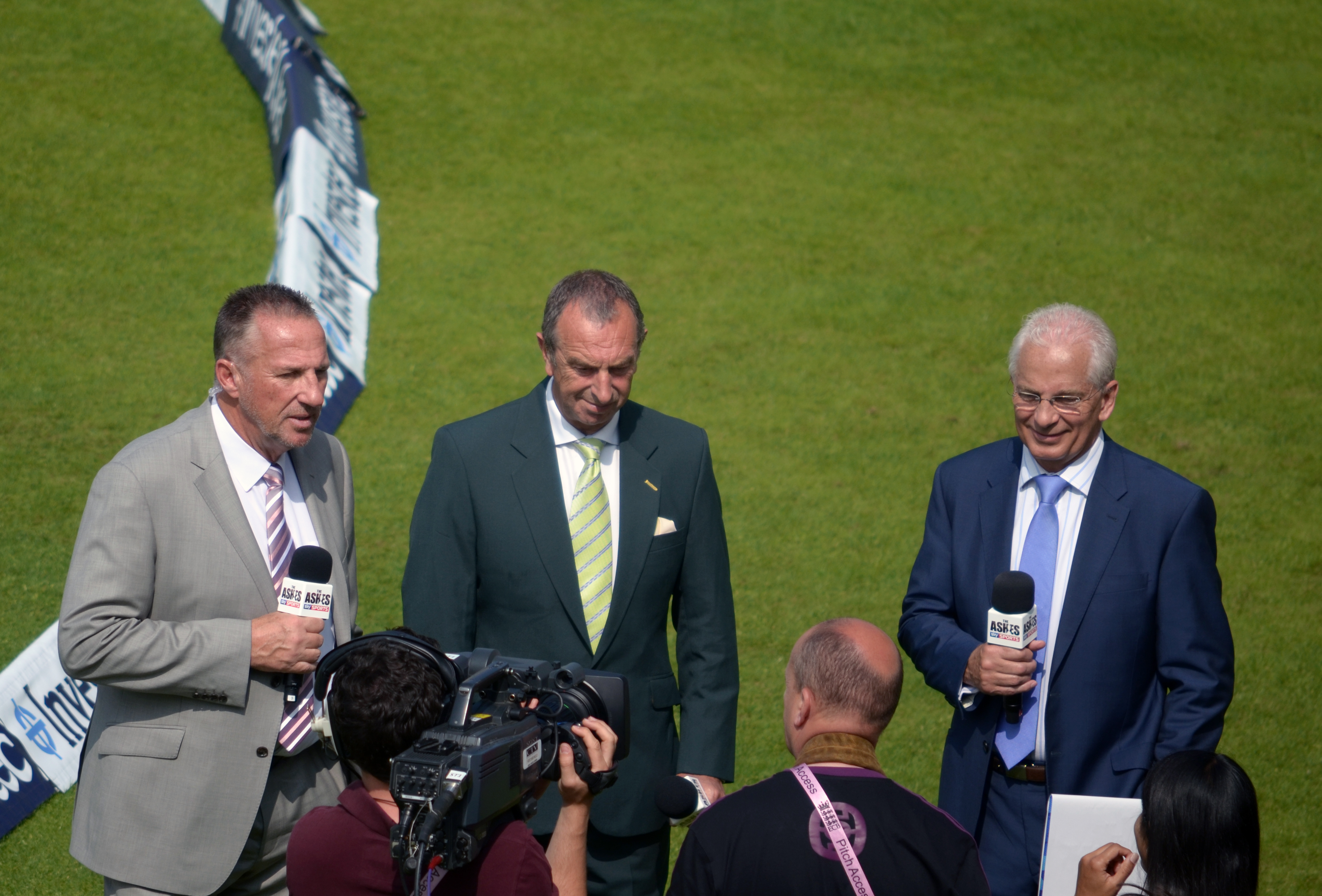 Ian Botham, David Lloyd and David Gower in front of the camera for Sky TV at Trent Bridge prior to the 3rd day of the 1st Test of the 2013 England v Australia Ashes series.